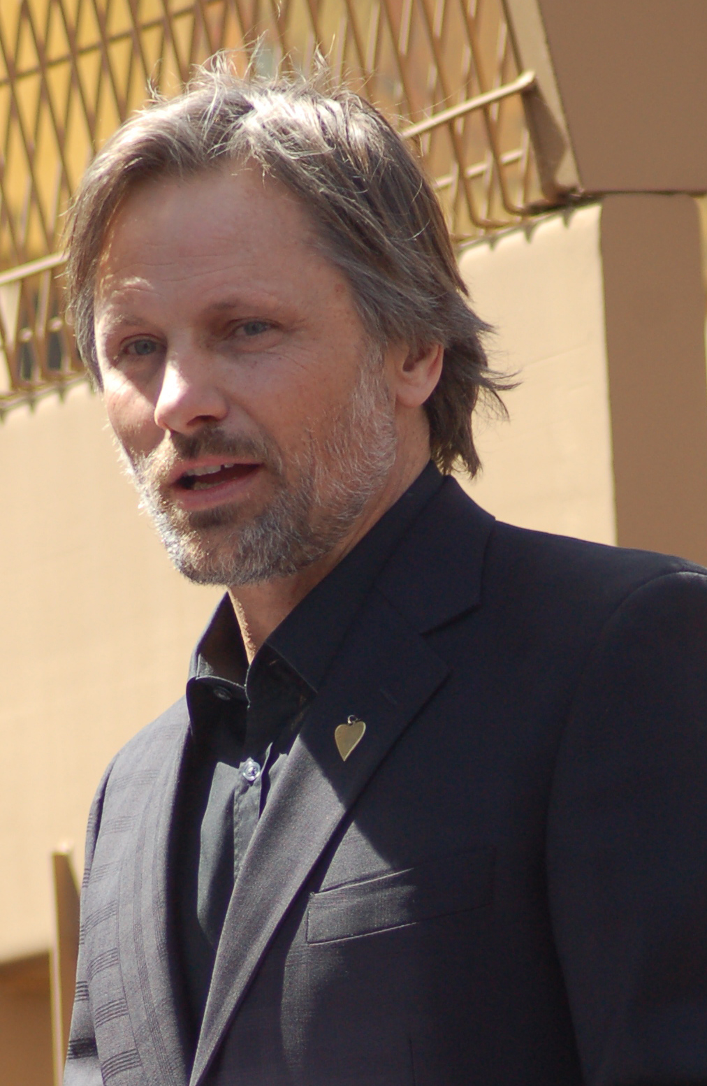 Viggo Mortenson speaking at a ceremony for Dennis Hopper to receive a star on the Hollywood Walk of Fame.